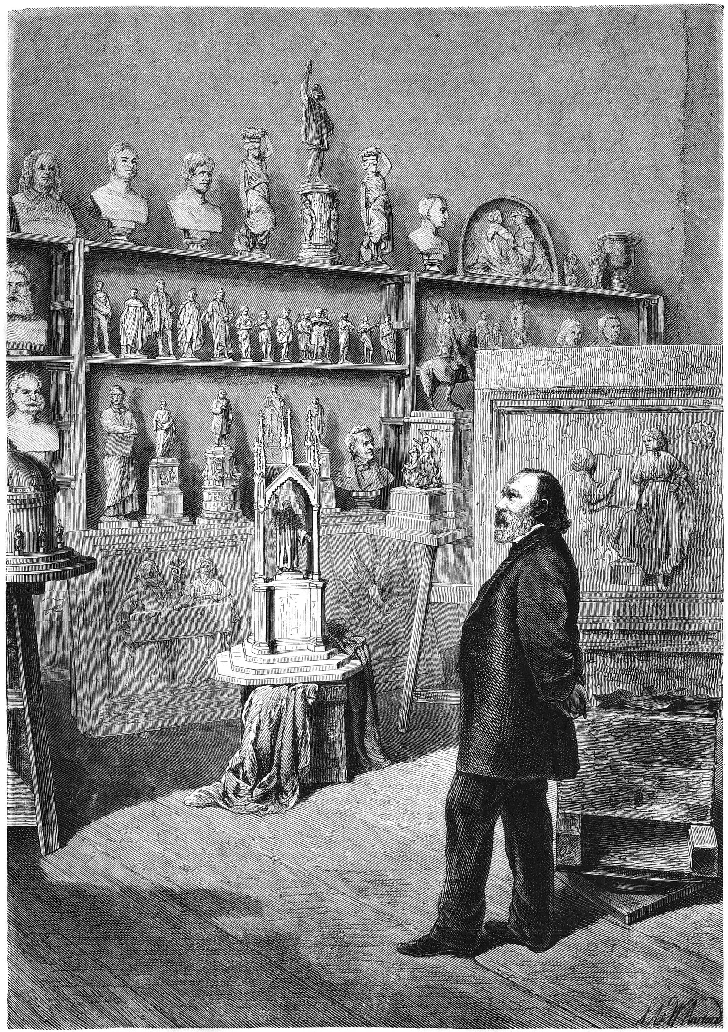 caption: "Friedrich Drake in seinem Atelier."